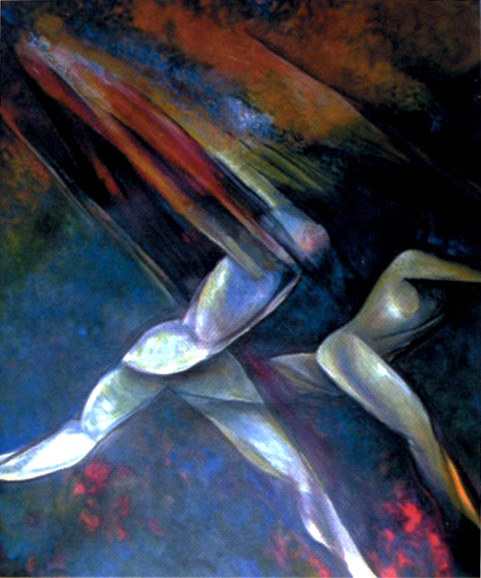 Raining Fire (1999) -olio su tela, 200x200,collezione Zeccola (Melbourne)